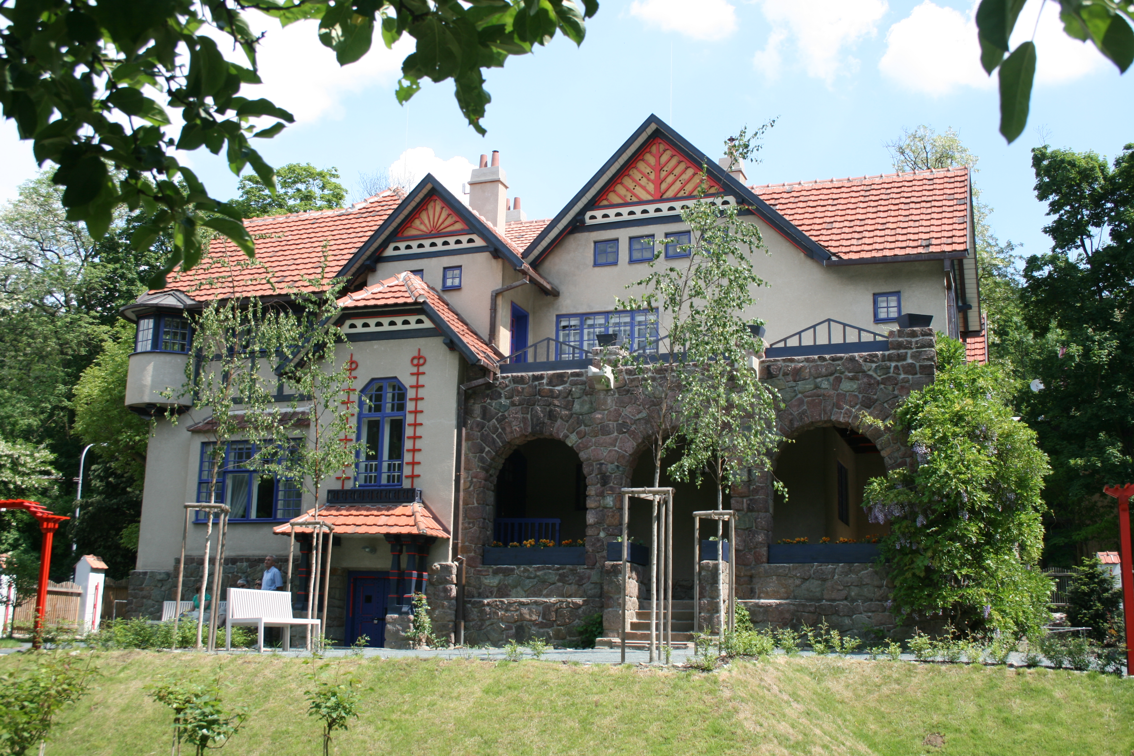 Villa of Dusan Jurkovic, Brno, Czech Republic.